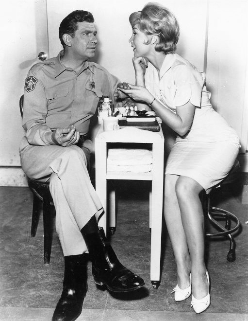 Photo of Andy Griffith and Barbara Eden from the television program The Andy Griffith Show. Andy goes for his first manicure as Floyd the Barber has hired one and finds a very attractive manicurist in Ellen Brown.